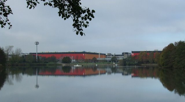 National Exhibition Centre Halls 1 and 5 on a misty November morning.